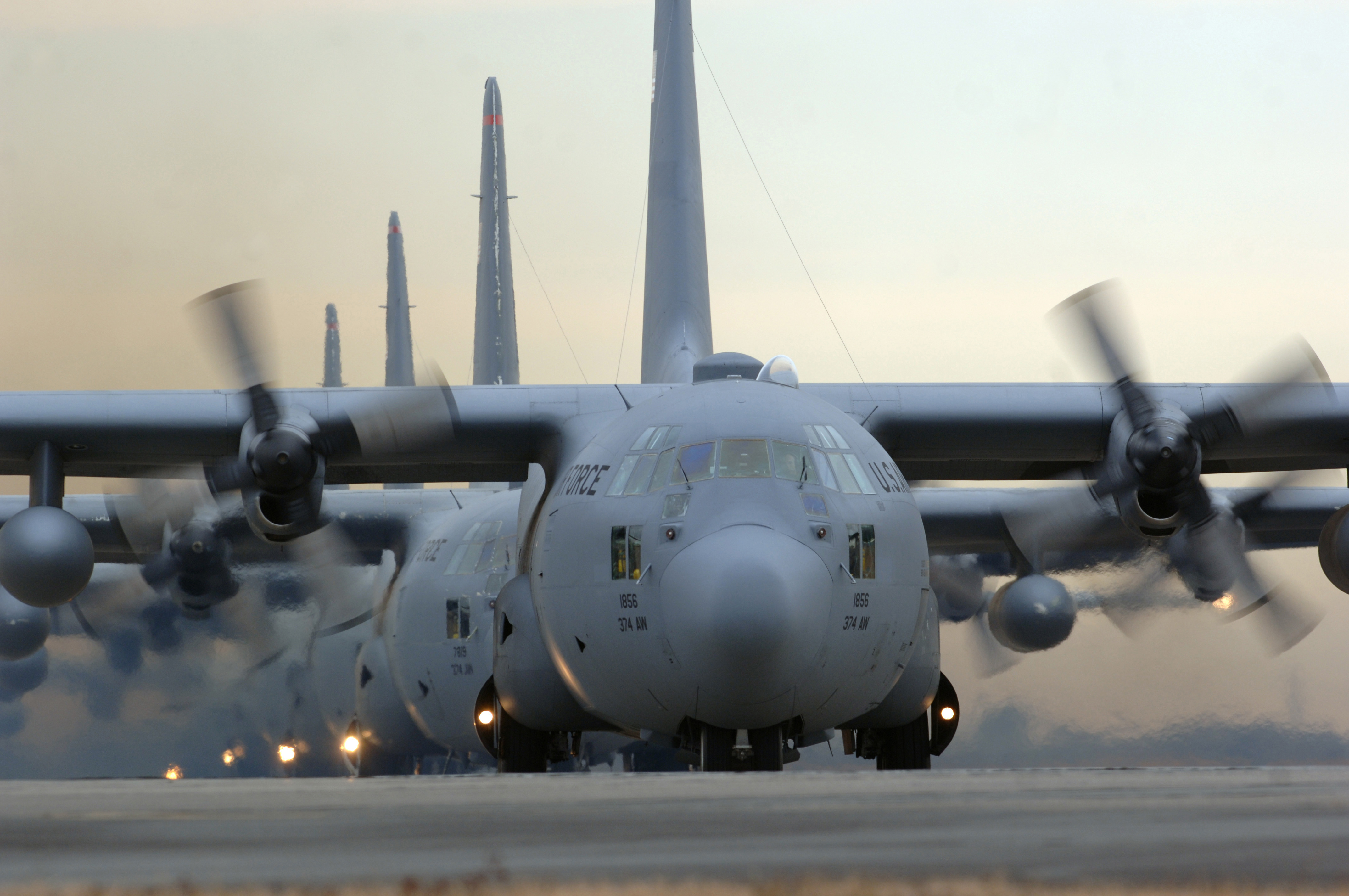 U.S. Air Force C-130 Hercules aircraft taxi on the flight line before a six-ship sortie from Yokota Air Base, Japan, on Jan. 6, 2006. The Hercules are attached to the 36th Airlift Squadron, which is the only forward-based tactical airlift squadron in the Pacific region.